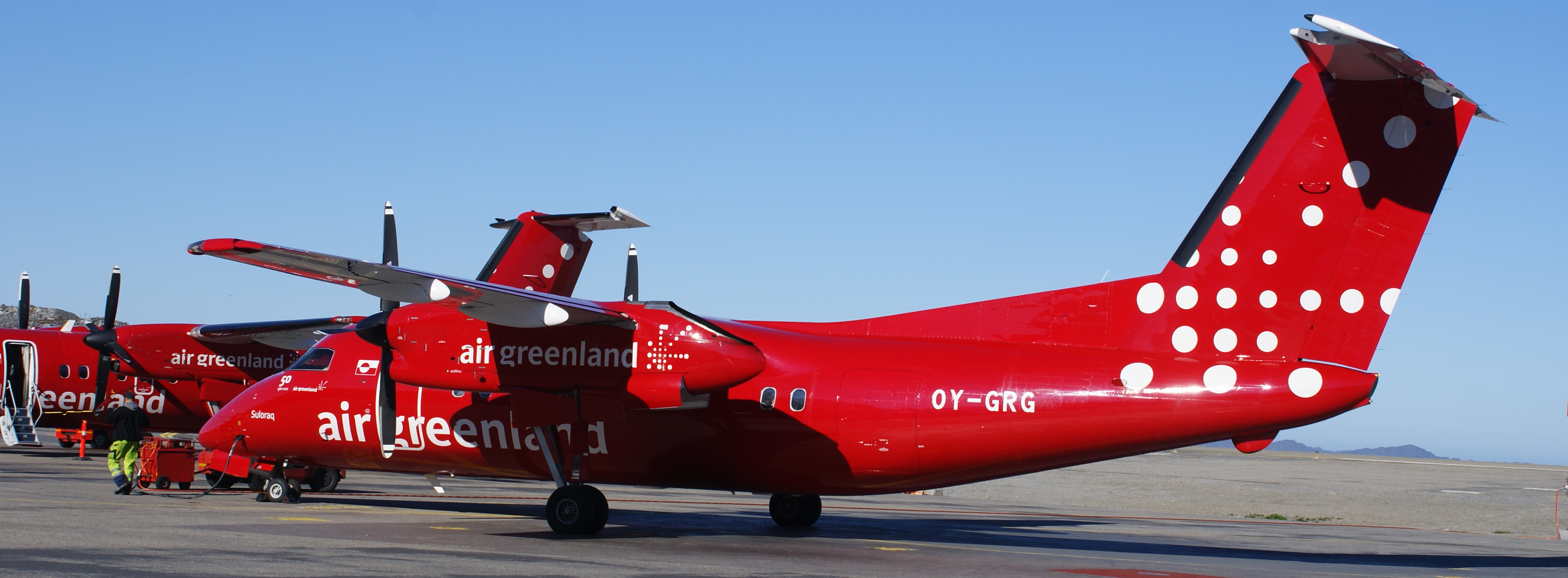 Two Air Greenland de Havilland Canada Dash-8 200 at Nuuk Airport, Greenland. "Suloraq" on the right.